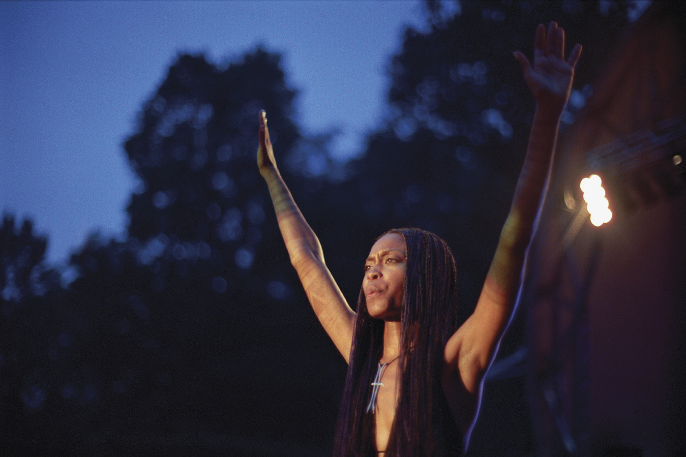 magic concert in Hamburg/Germany 9.7.2002